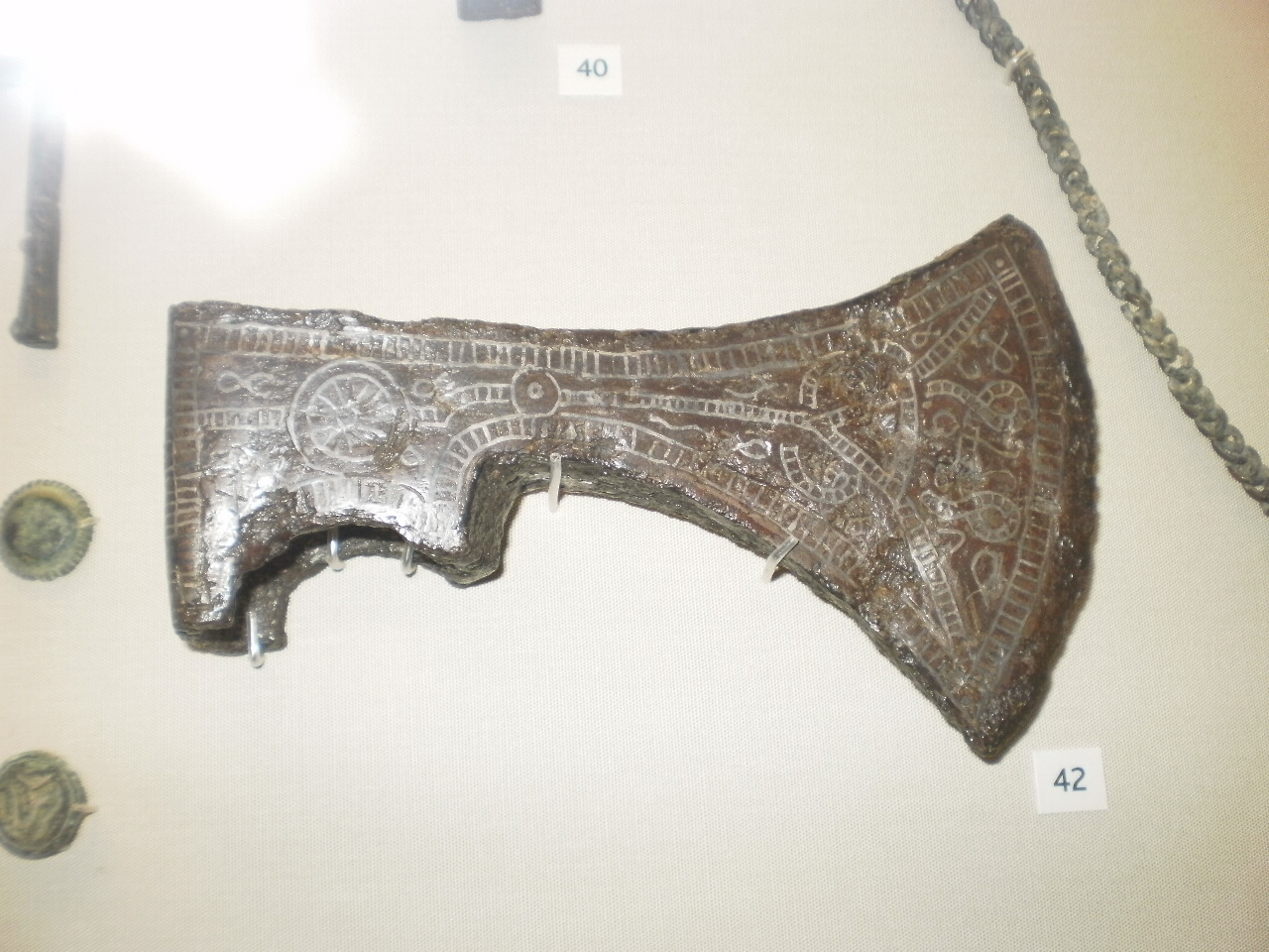 A battleaxe head from the later Merovingian period (iron with silver inlay), probably found in Klärlich in Germany; British Museum, London